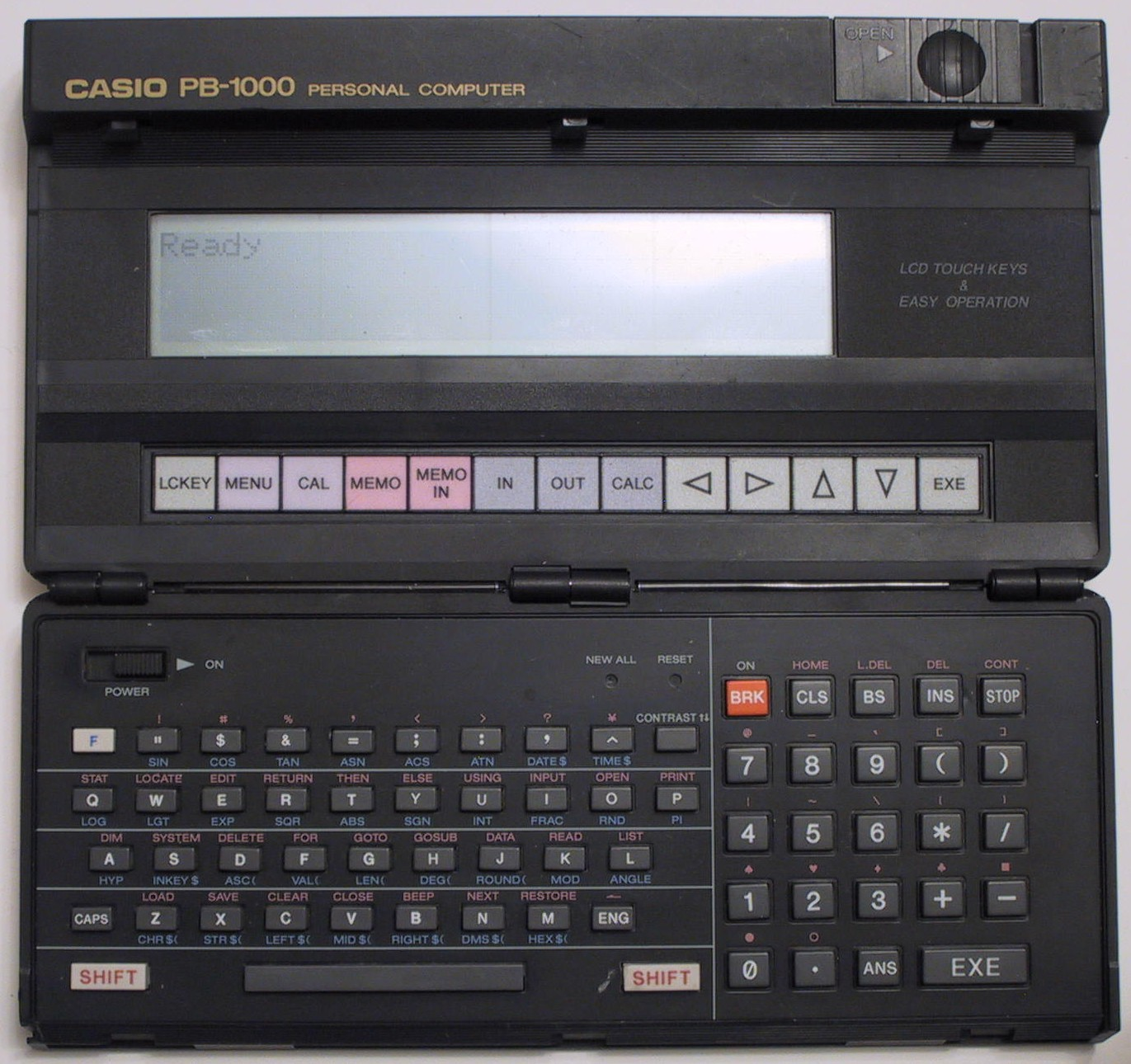 Pocket microcomputer Casio PB-1000 programmable in BASIC and assembler.